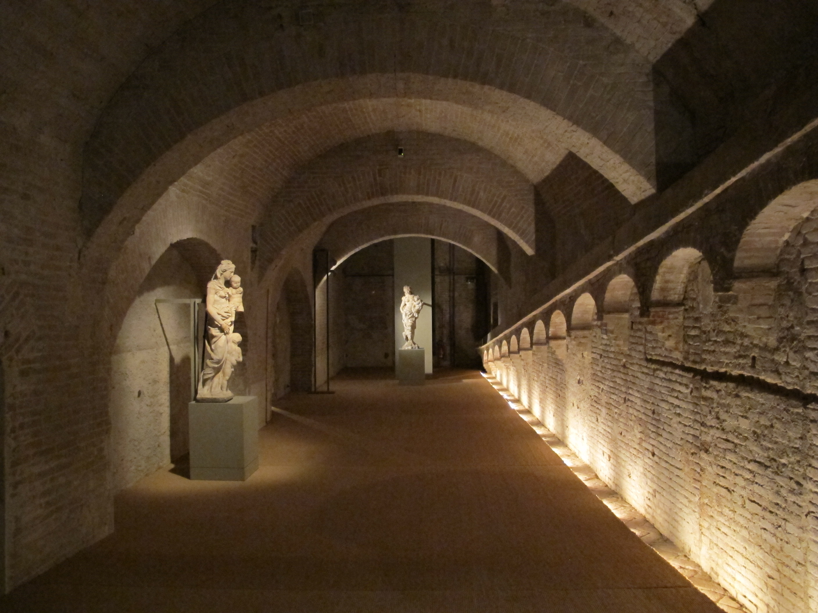 Santa Maria della Scala Hospital (Siena)